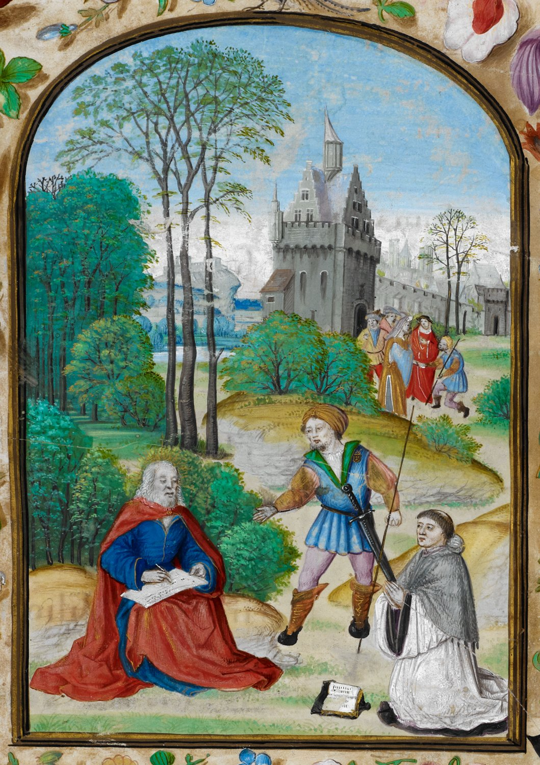 British Library MS. Royal 1 E V, folio 5, St. Paul Writing His Epistles with John Colet. Reference: Fritz Grossmann (1950). "Holbein, Torrigiano and Some Portraits of Dean Colet: A Study of Holbein's Work in Relation to Sculpture". Journal of the Warburg and Courtauld Institutes 13 (3/4): 202–236.